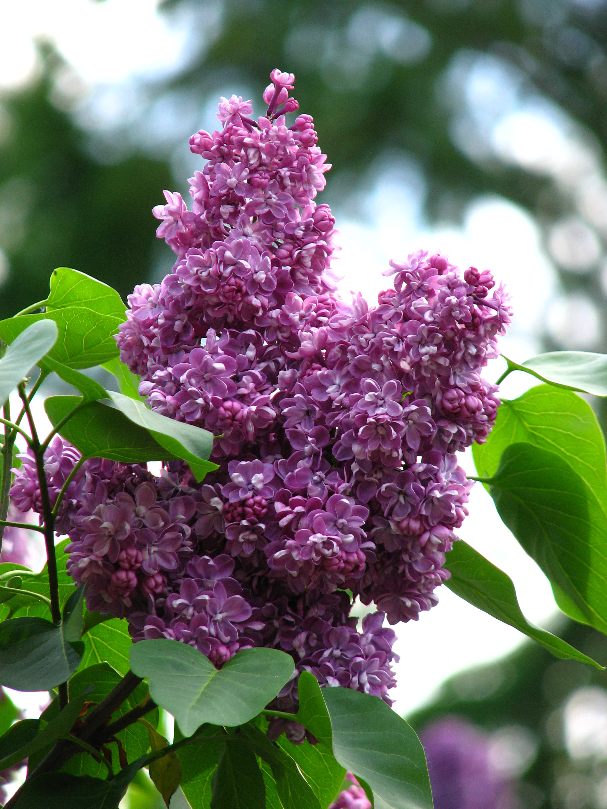 Syringa vulgaris 'Pavlinka'. Originators: Smolsky, Bibikova, 1964. From the collection of the Botanical Garden of Moscow State University (main area on the Sparrow Hills).